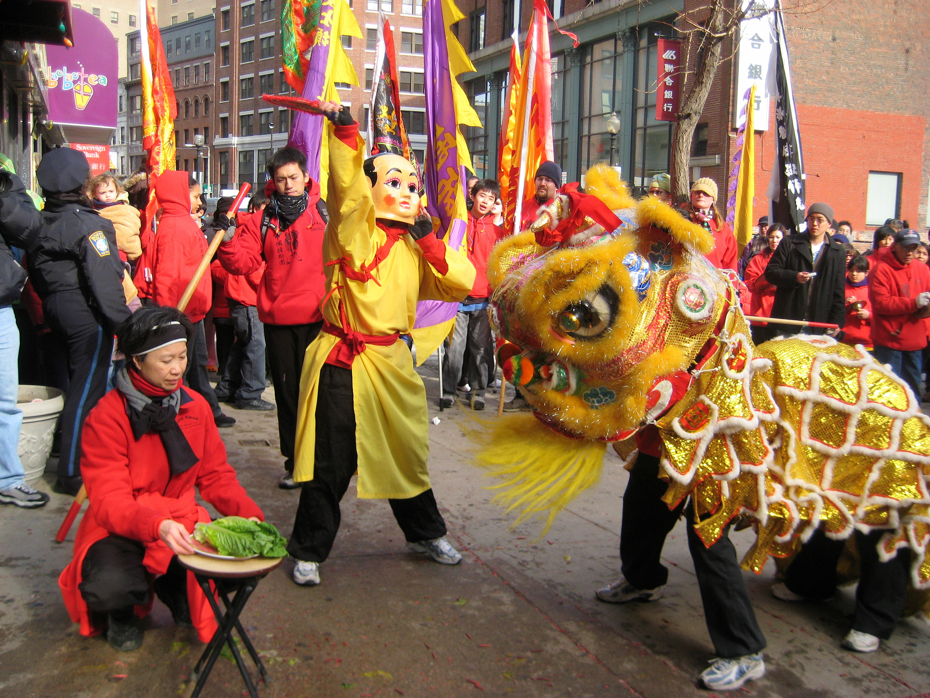 Chinese New Year festival in Chinatown. February 2009 photo by John Stephen Dwyer